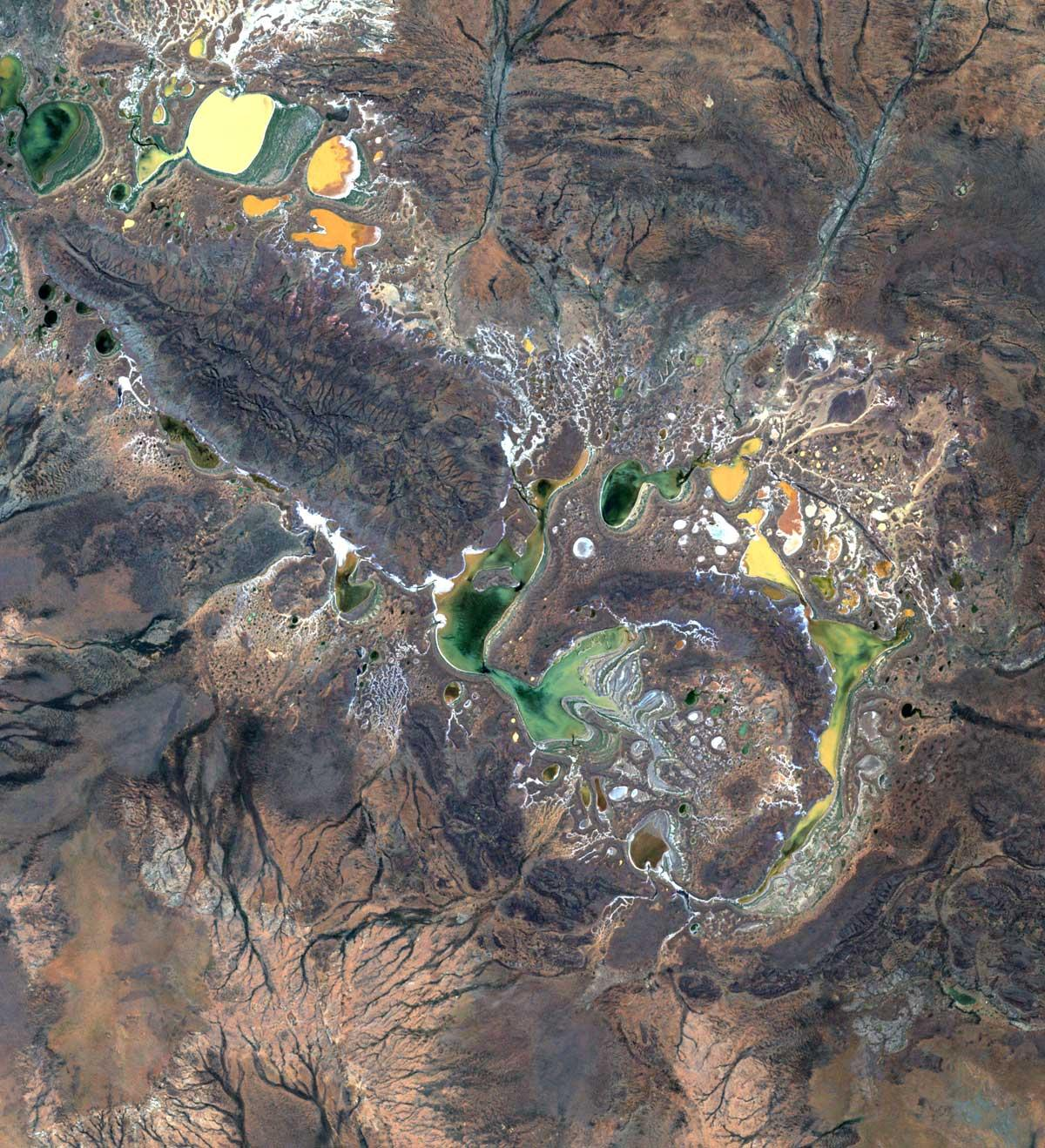 The Shoemaker impact structure lies in the arid, central part of Western Australia near Wiluna. The crater is about 30 kilometers (18 miles) in diameter and contains seasonal lakes that produce salt deposits as they evaporate. It is approximately 1.7 billion years old and is regarded as the oldest known Australian impact structure to date. A dark, crescent-shaped inner ring surrounds the core, which consists of uplifted granitic rocks. The outer ring is composed of Precambrian sedimentary rocks. The crater, formerly known as Teague, was renamed the Shoemaker impact structure in honor of the late geologist Eugene M. Shoemaker, one of the founding fathers of impact research.